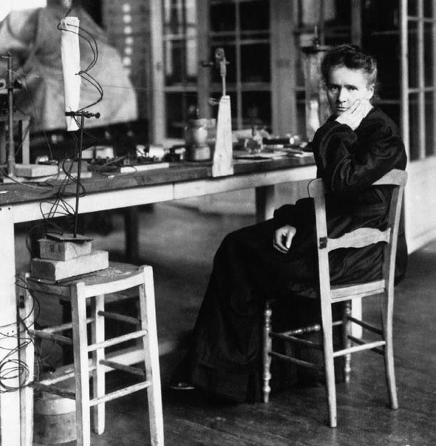 Marie Curie in her laboratory